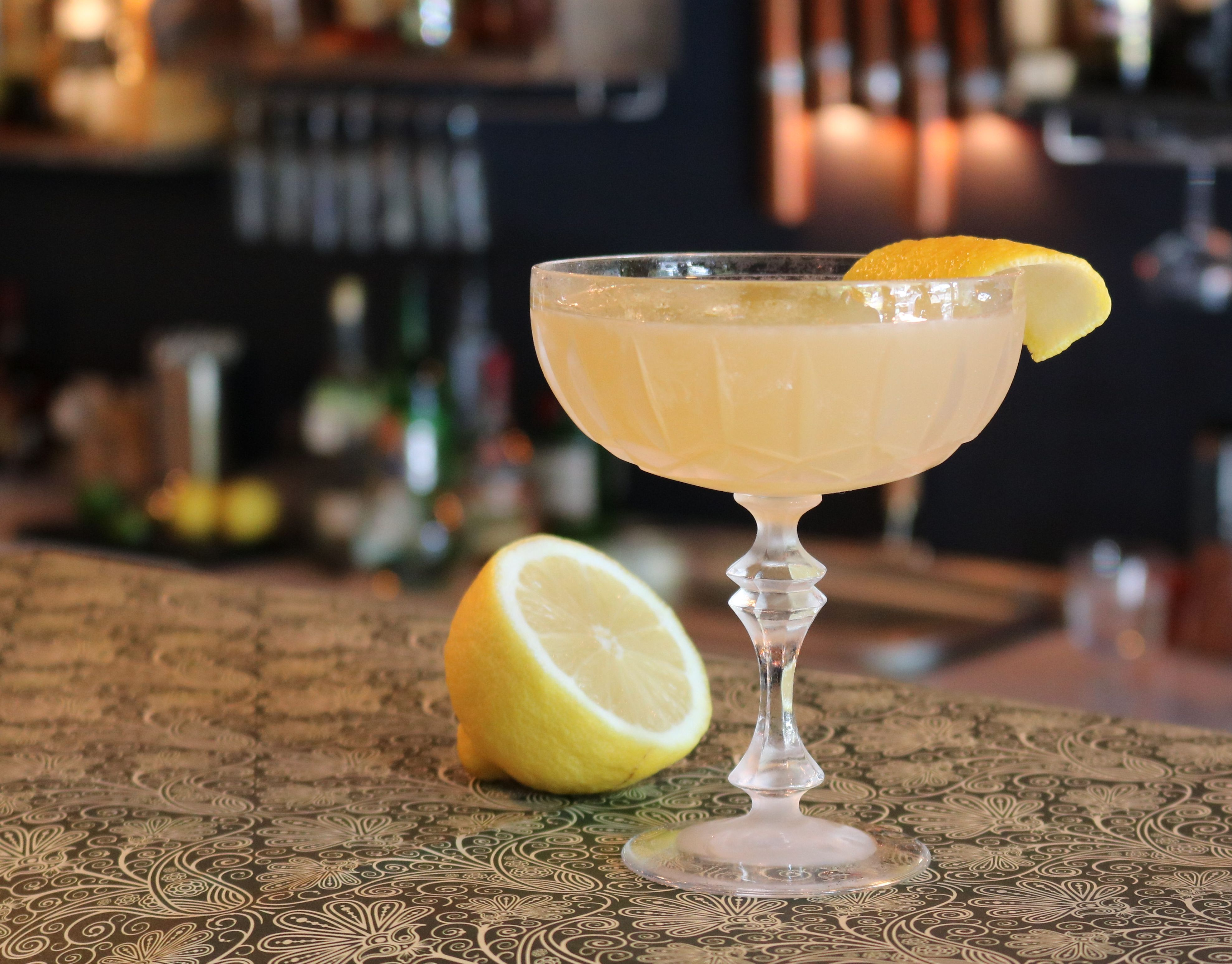 A Sidecar Cocktail.